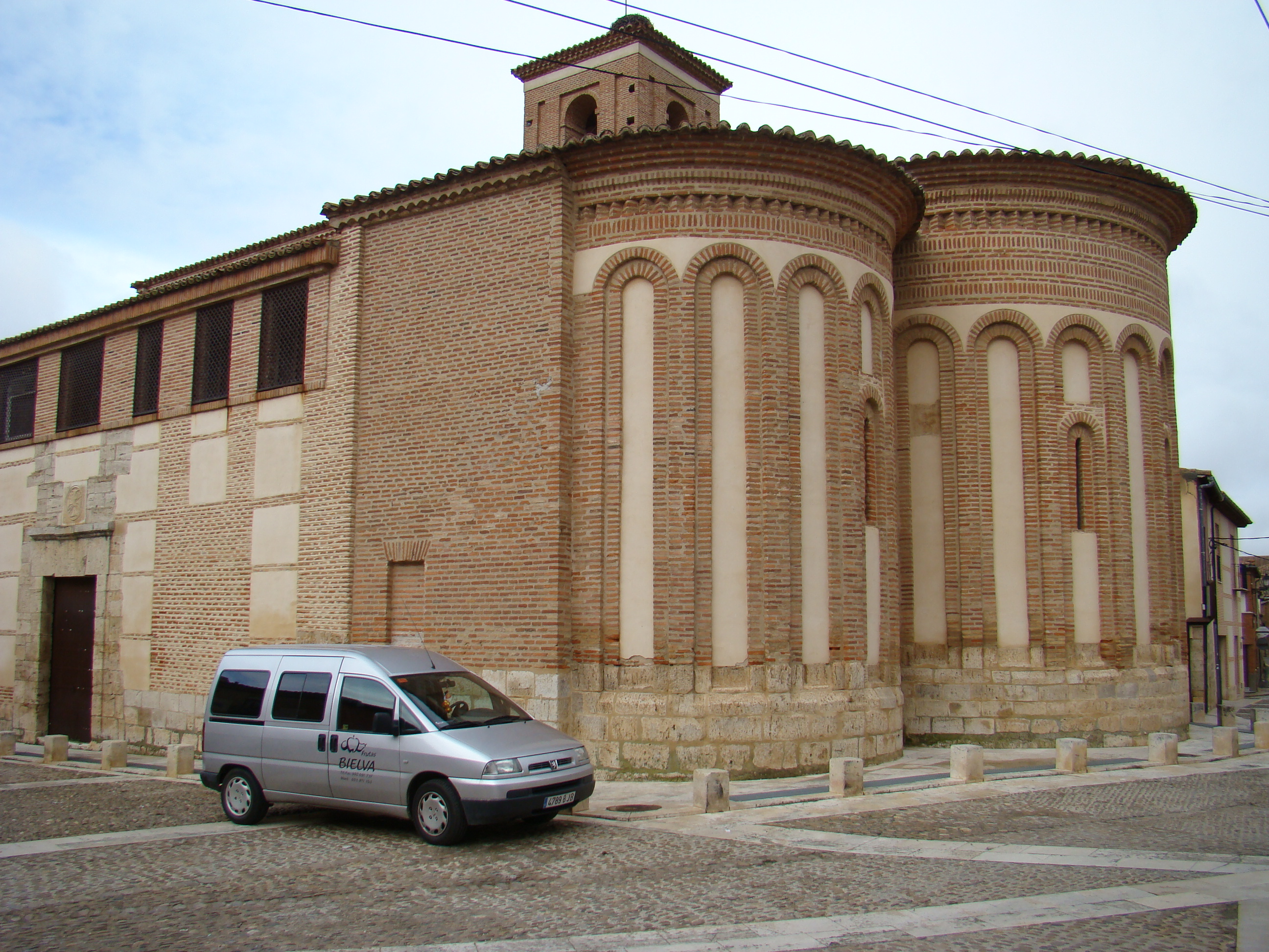 Romanesque-mudejar church of San Salvador de Toro, Zamora (Spain).